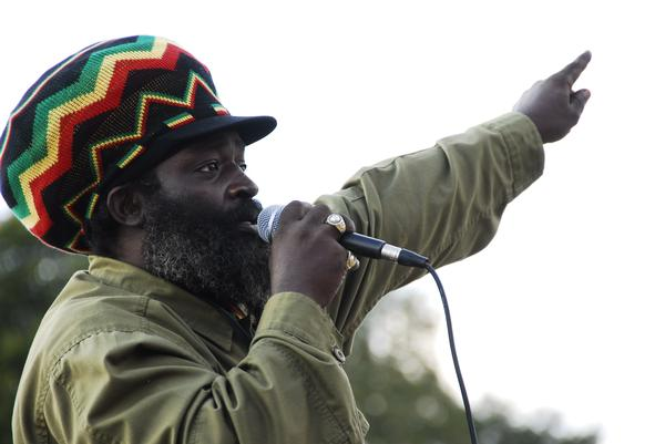 Bigga Haitian performing at the 2007 American Marijuana Music Awards, McCarren Park Pool, Brooklyn, NY